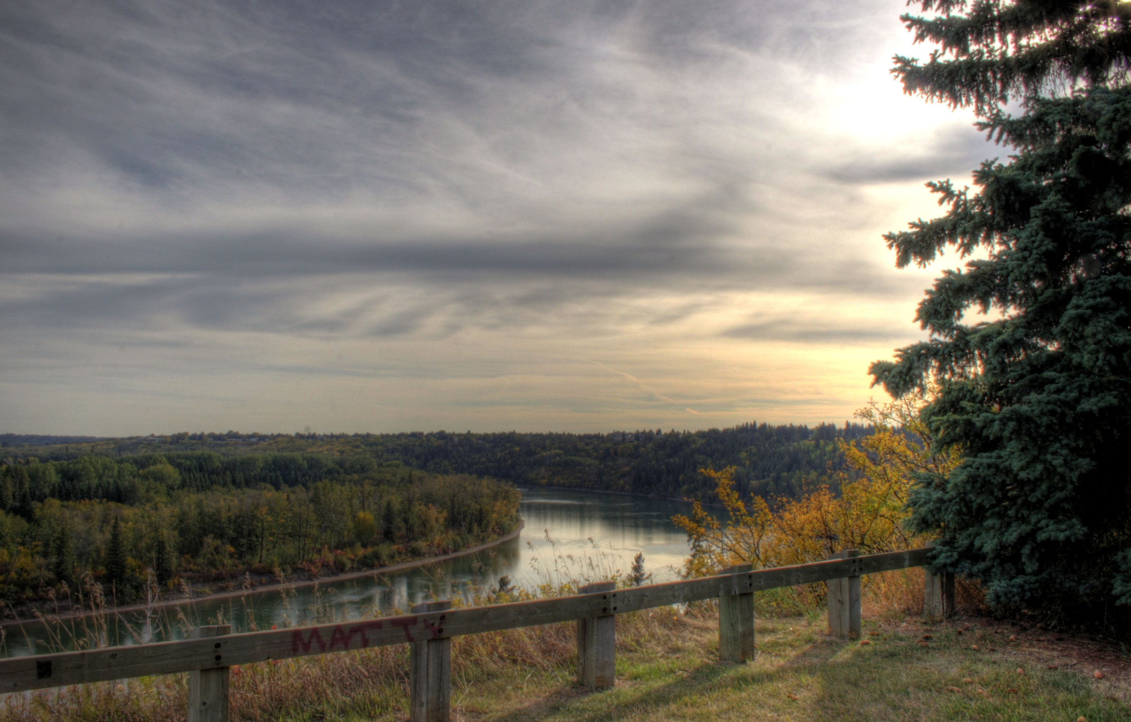 North Saskatchewan River valley viewed from Glenora neighborhood in Edmonton, Alberta, Canada.